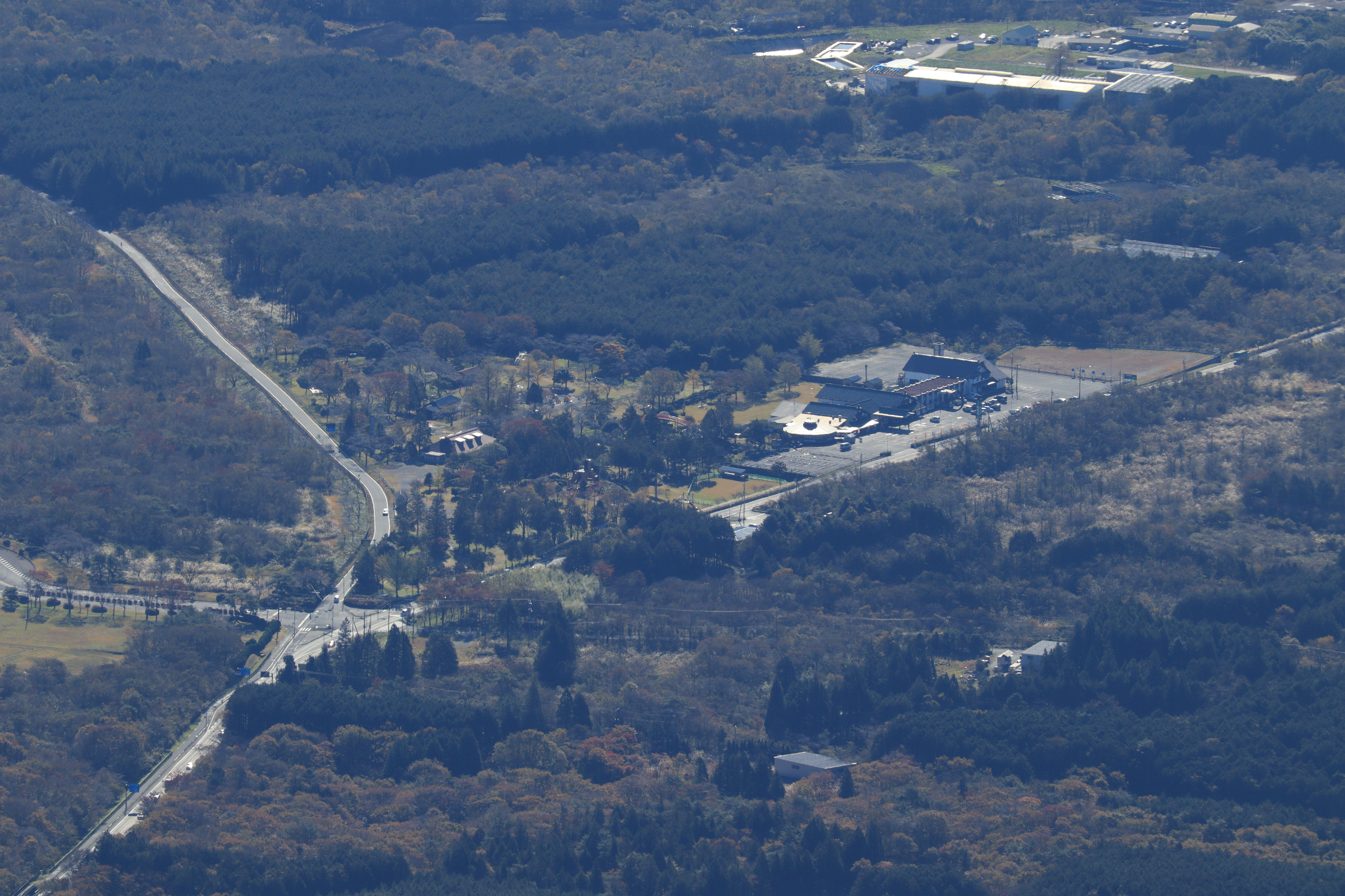 Route 139 and Shizuoka Prefectural Road Route 75 seen from Mount Kenashi (Tenshi Mountains) in Fujinomiya, Shizuoka Prefecture, Japan.